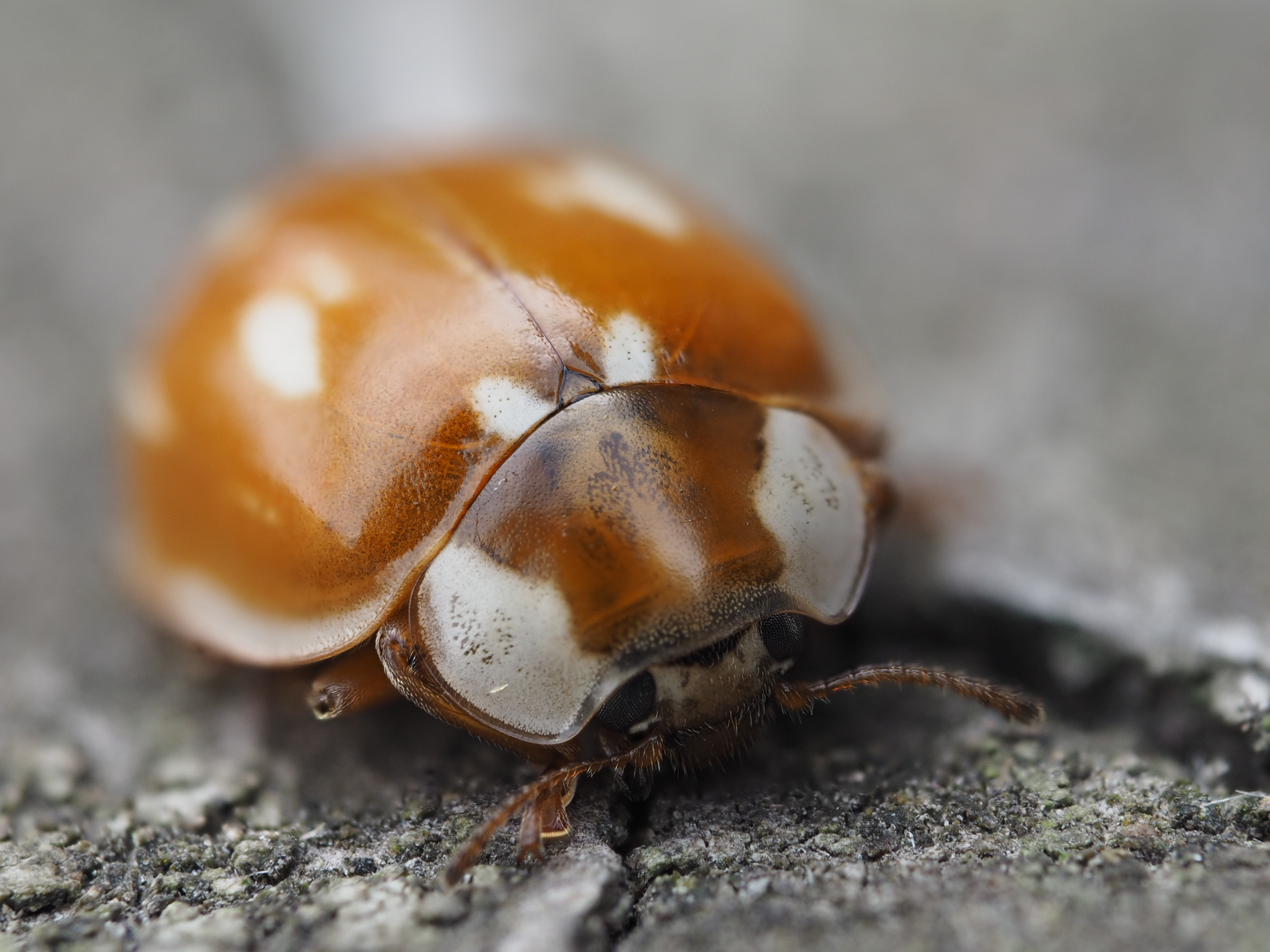 Myzia oblongoguttata photographed at Hjälstaviken, Uppland, Sweden.